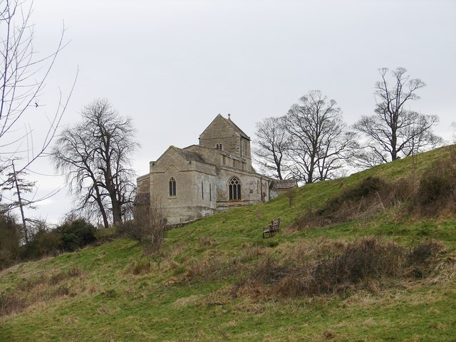 Wadenhoe Church from the car park View south-westwards from the public car park.